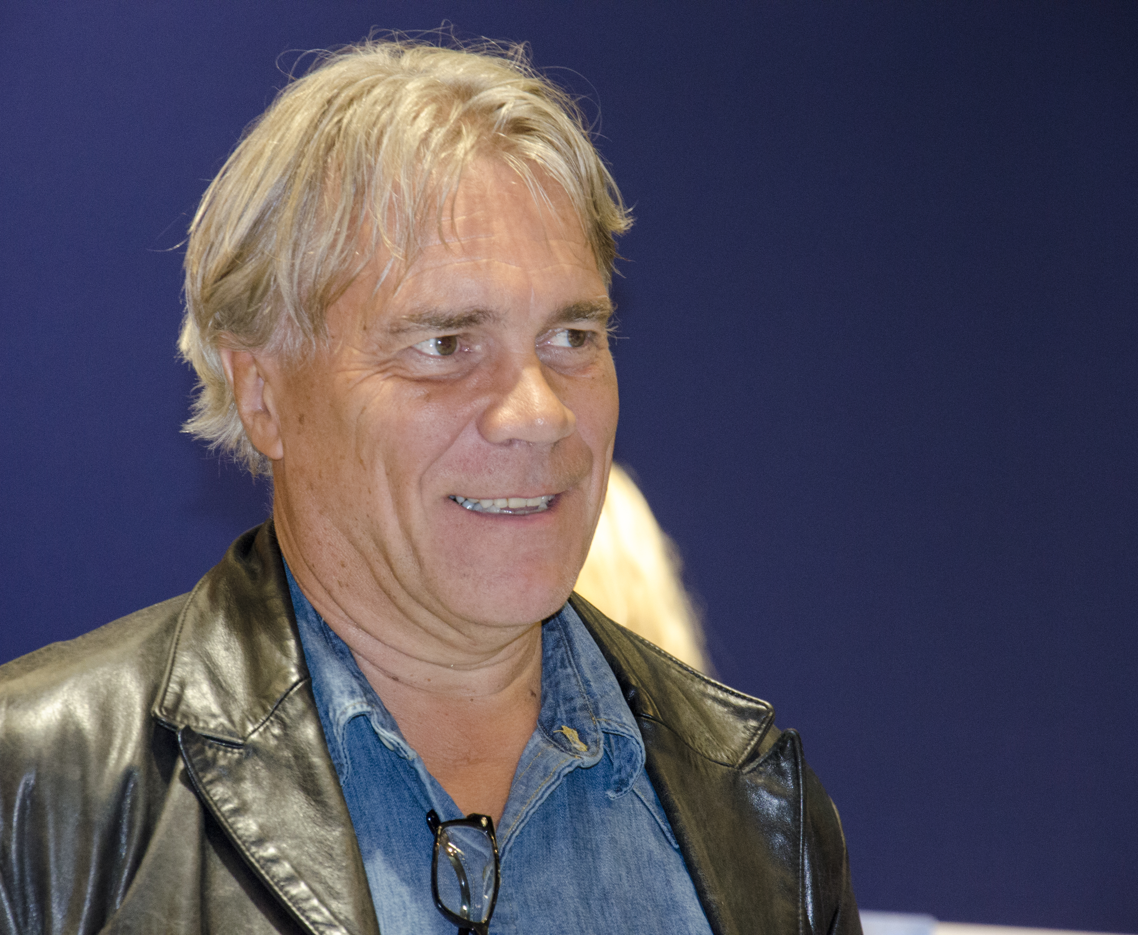 Einar Kárason at the Gothenburg Book Fair 2015.